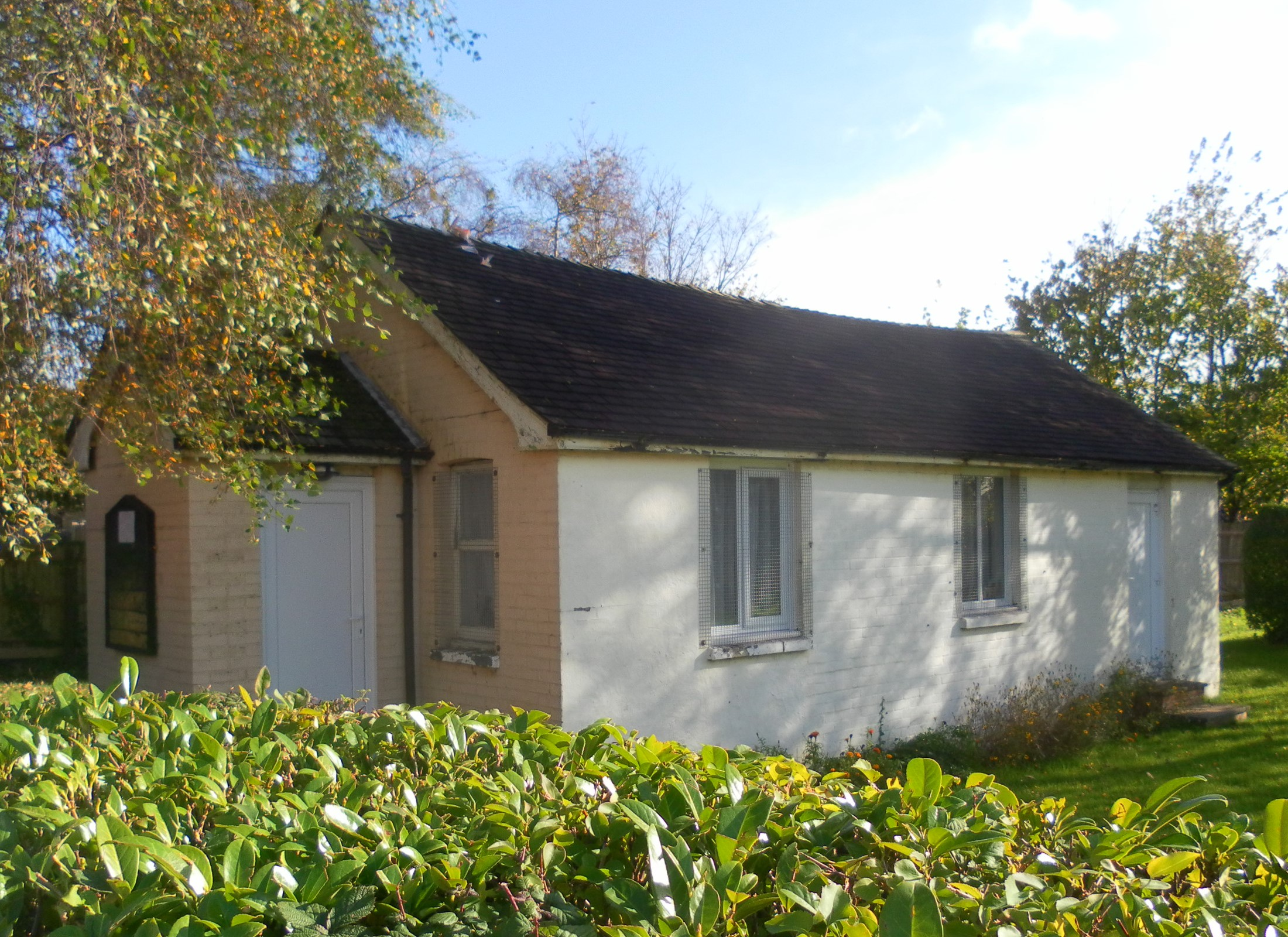 The meeting room on the north side of St Wilfrid's Roman Catholic Church, South Road, Hailsham, East Sussex, England. This building is the original church, built in 1922 and used until 1955 when a larger replacement was built. In turn this was replaced by the present St Wilfrid's Church in 2015.